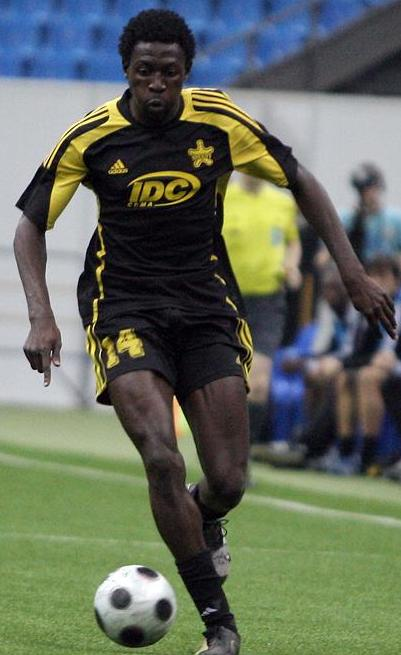 Wilfried Balima